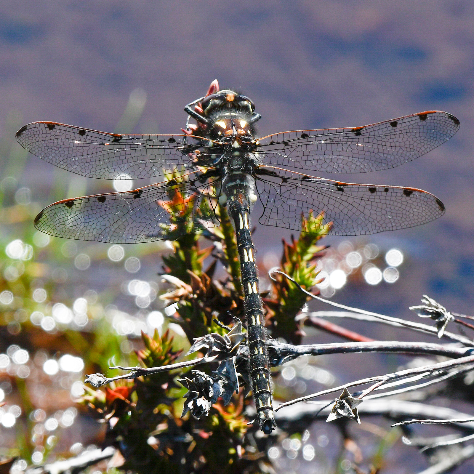 Tasmanian Redspot, Archipetalia auriculata, male, dorsal view